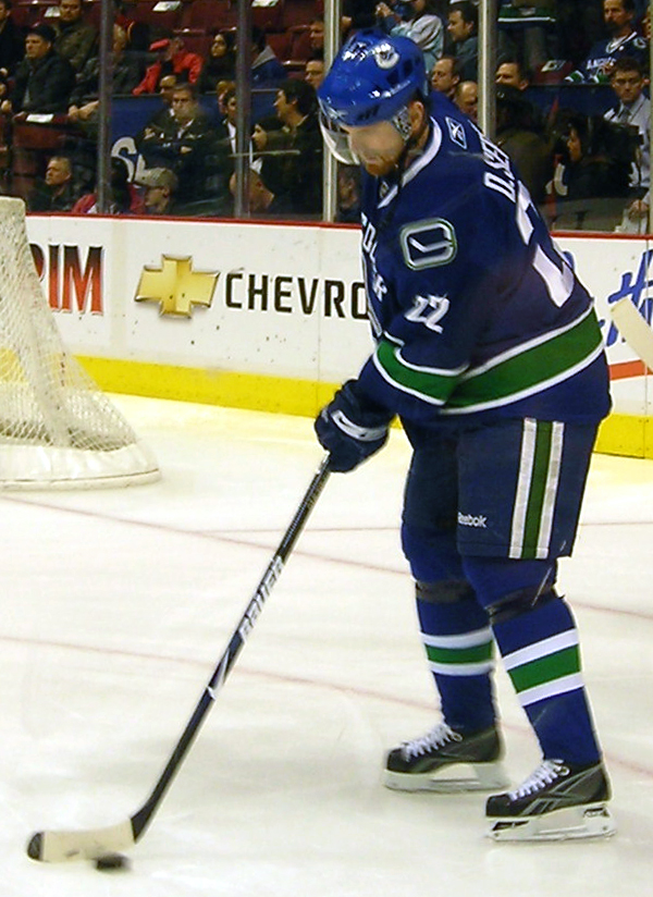 Vancouver Canucks forward Daniel Sedin warming up prior to a March 15, 2009, against the Colorado Avalanche.